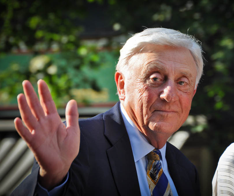 Hall of Fame pitcher Phil Niekro